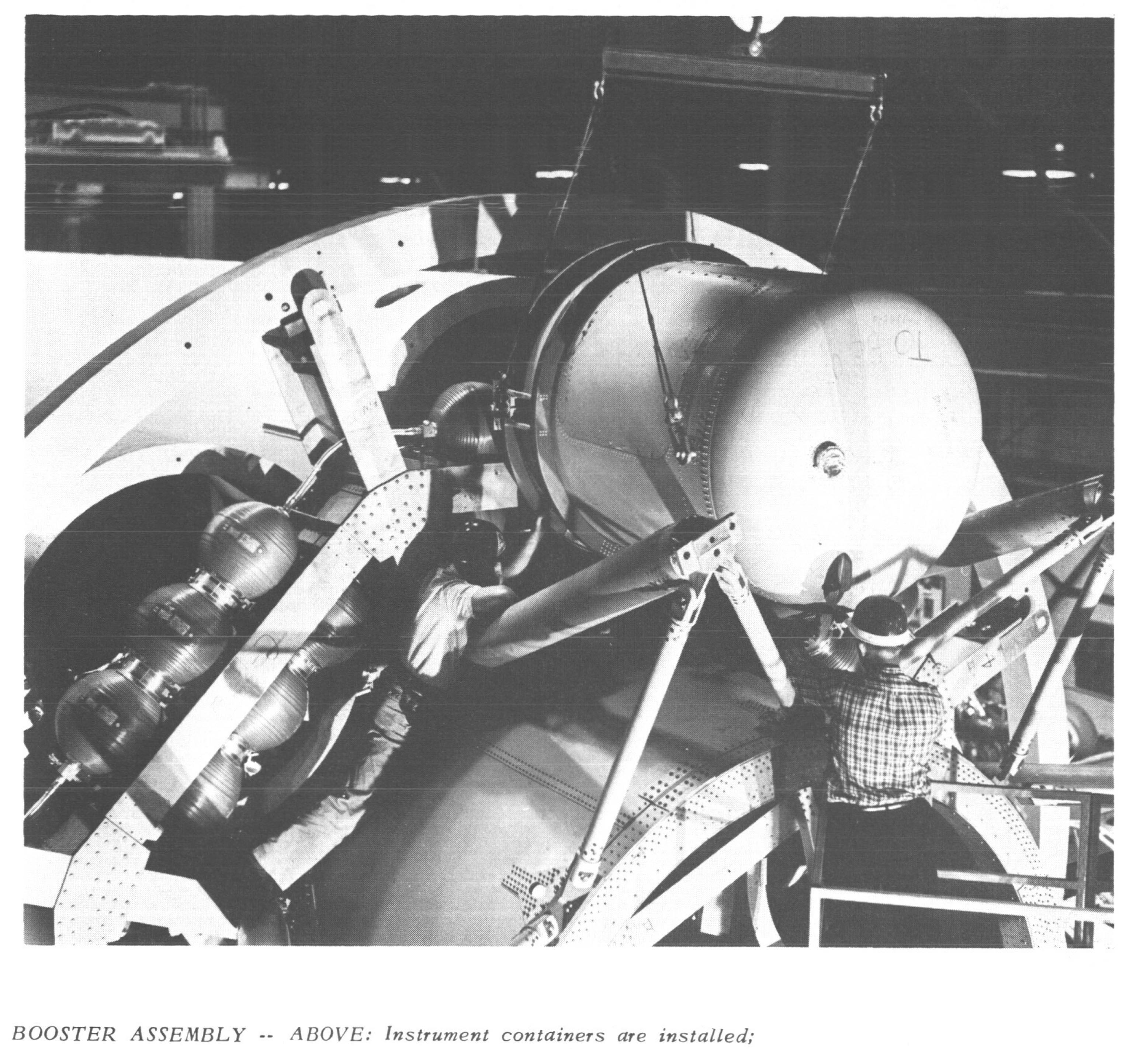 Instrument containers being installed in the forward end of the S-1 booster.